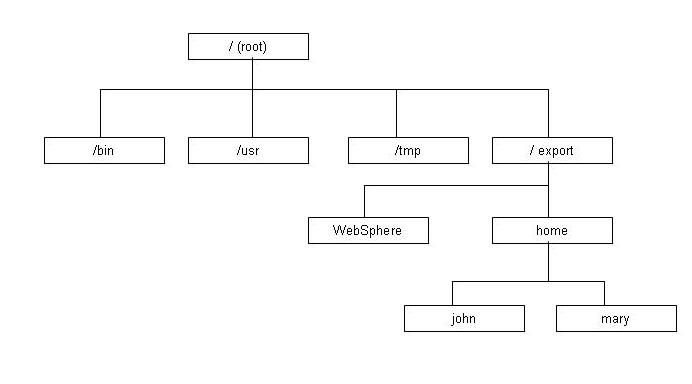 unix file system sample